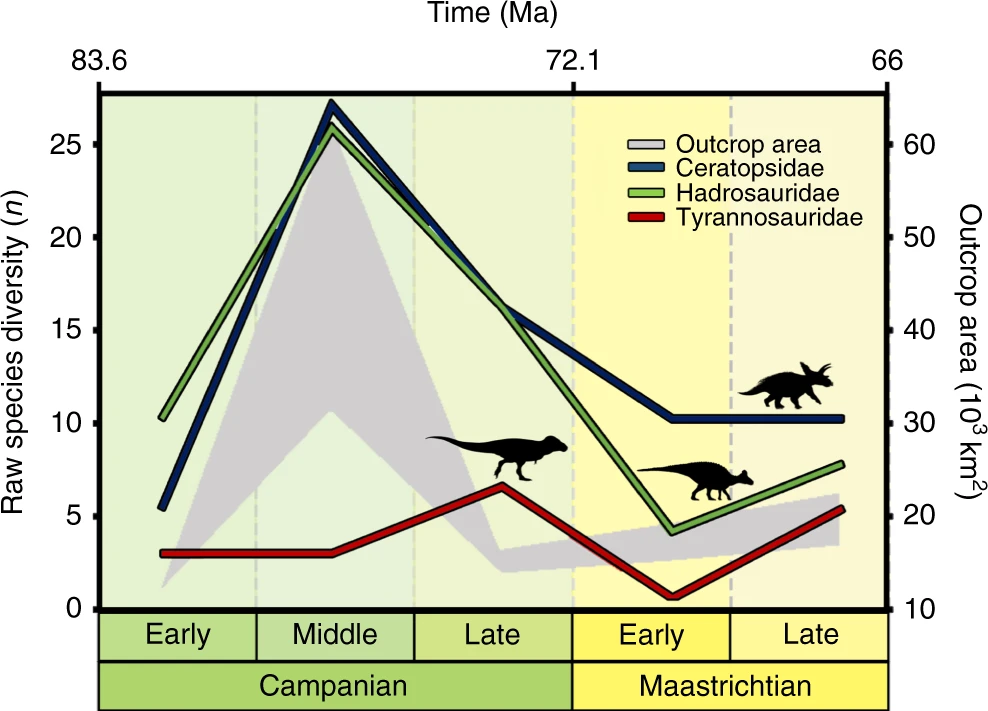 Raw diversity trends for the three clades of dinosaurs in this study plotted against outcrop exposure area. The plot shows the apparent correlation of this sampling proxy with diversity curves for these clades of dinosaurs (Ceratopsidae, Hadrosauridae, and Tyrannosauridae).